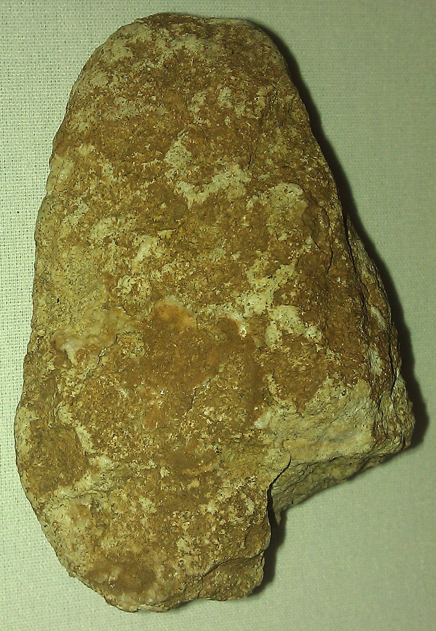 Flint axehead, likely neolithic, found at Wombourne, then Staffordshire, England, in 1943. 10.7cmx5.2cm. Now in the collection of Wolverhampton Museum (record no A202.4), from whose records this description is taken.